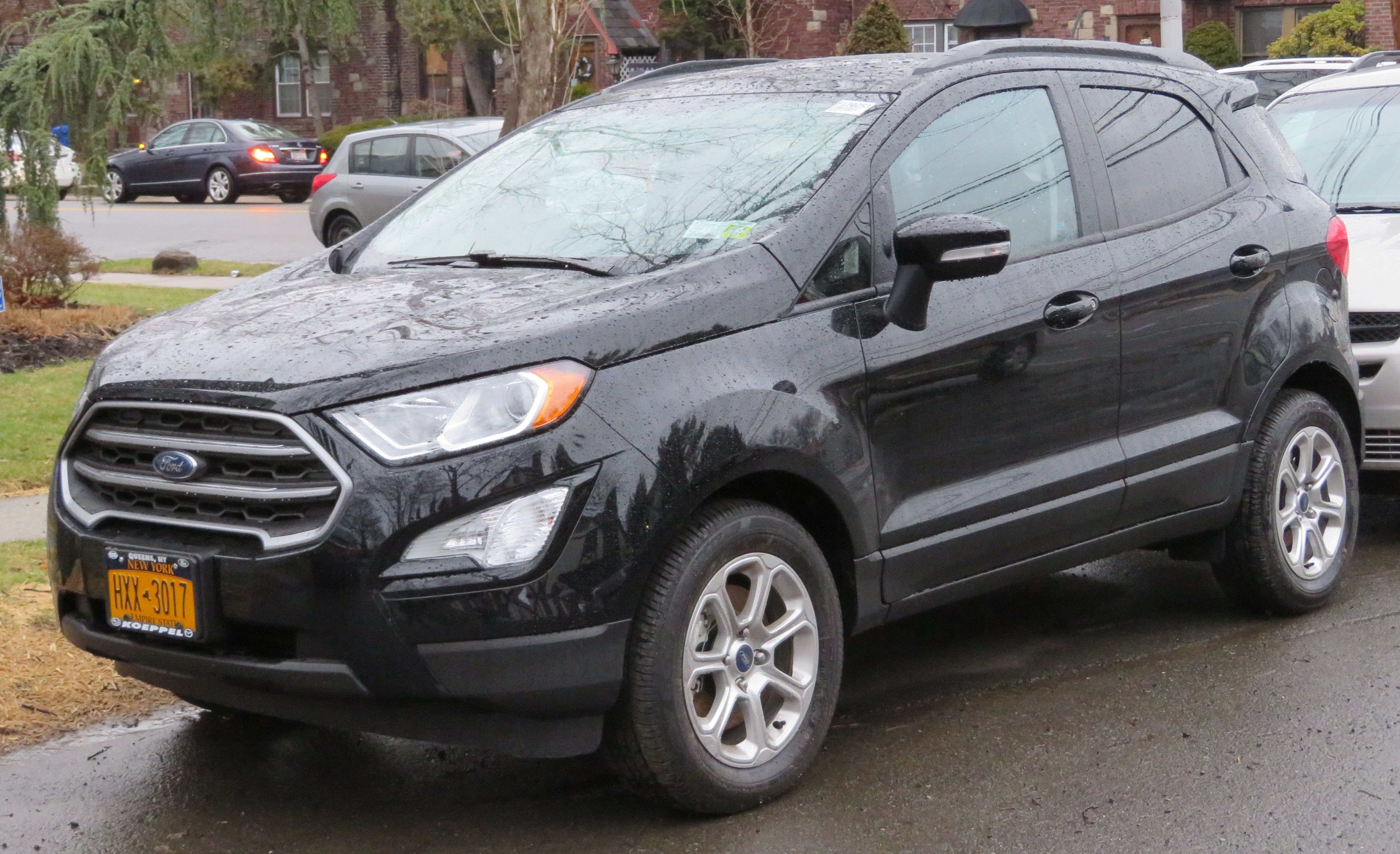 Spotted in Queens, New York.